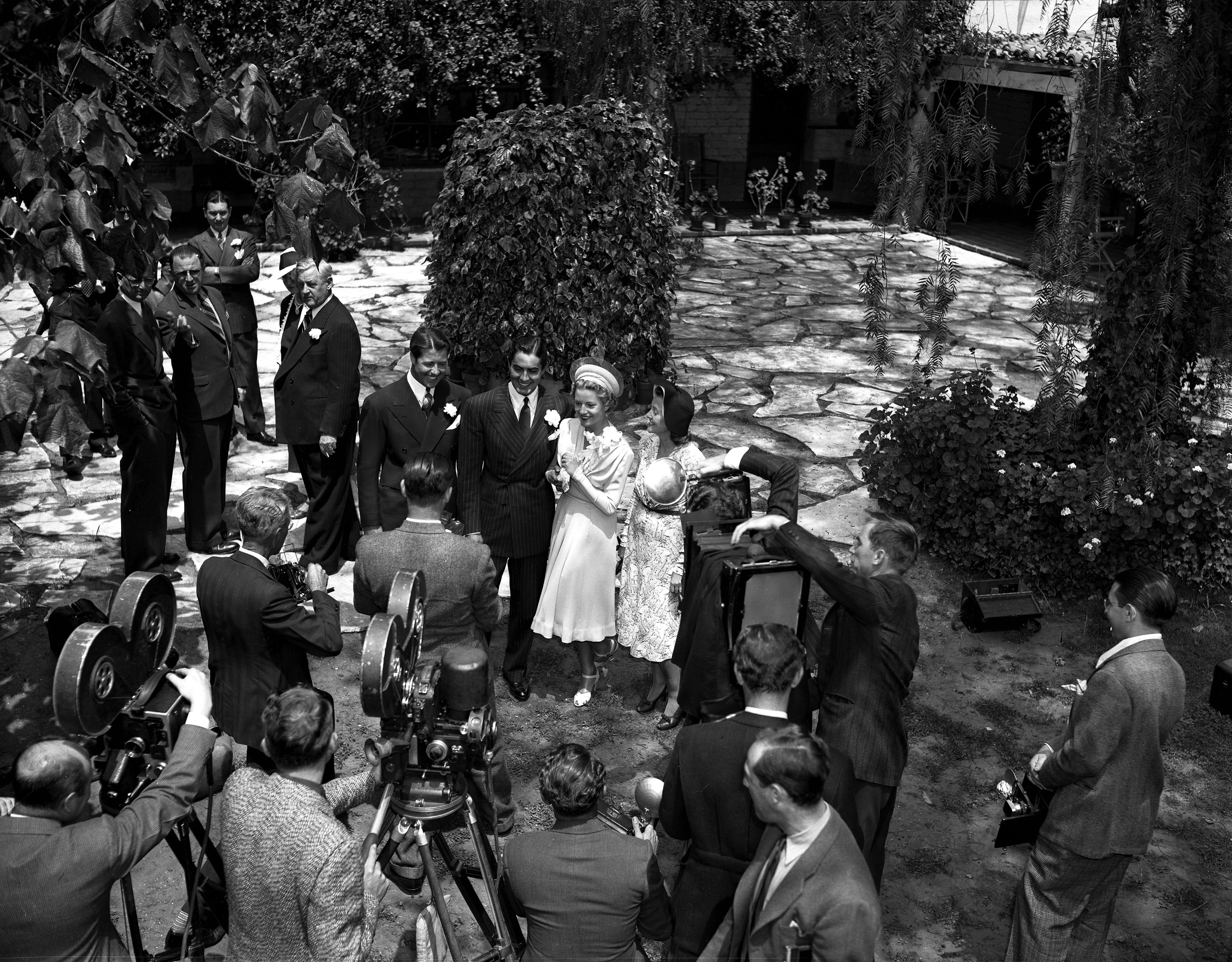 Tyrone Power and Annabella after their wedding ceremony in Bel-Air, California in 1939. In the wedding party are, left to right, Don Ameche (best man), Power, Annabella and Pat Paterson.